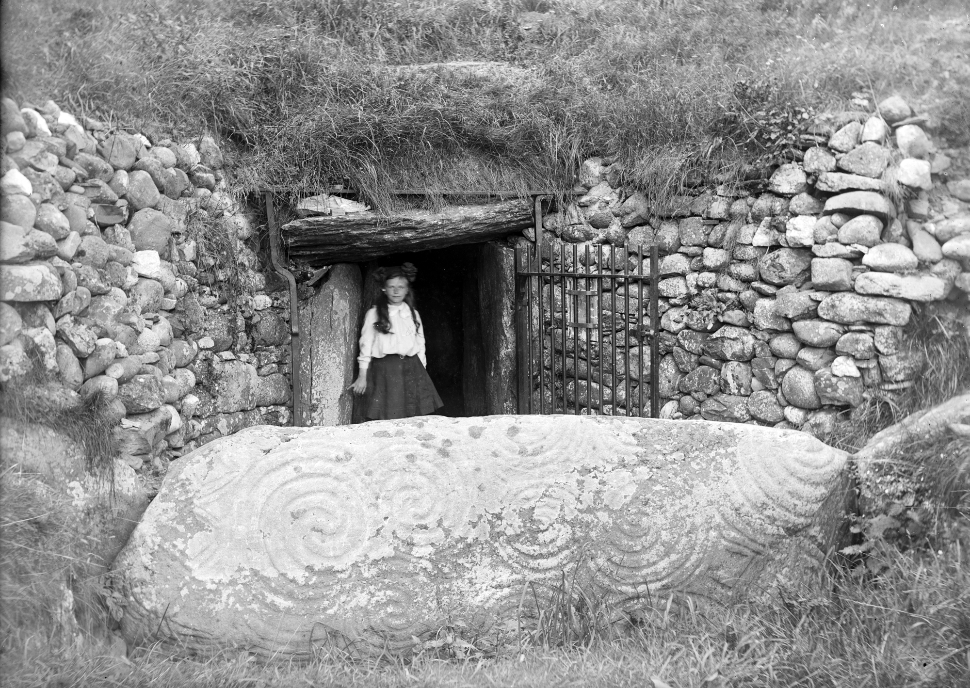 For the day that's in it (Winter Solstice) and as the world doesn't seem to have ended, thought it might be fitting to celebrate an ancient aspect of Ireland's history. This photo of a girl at the entrance of Newgrange Passage Tomb in Co. Meath is from our Tempest Collection. P.S. Wishing all of you a very Merry Christmas and a Happy New Year! Thanks for all the hard work and amazingly tireless research, the laughs and the puns/Limericks (beachcomberaustralia!). Please accept this cartoon from our Prints & Drawings Collection as our Christmas Card to each and every one of you... Date: 1900-1910 NLI Ref.: TEM 129